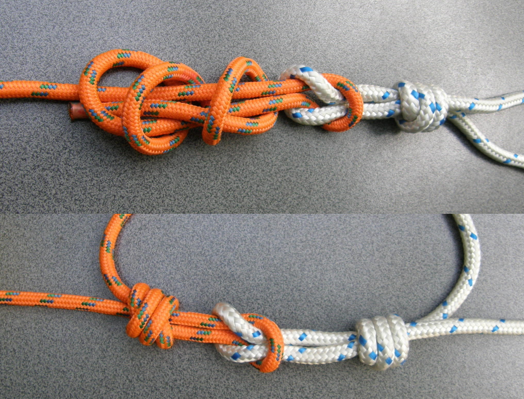 Reef knot, Square knot